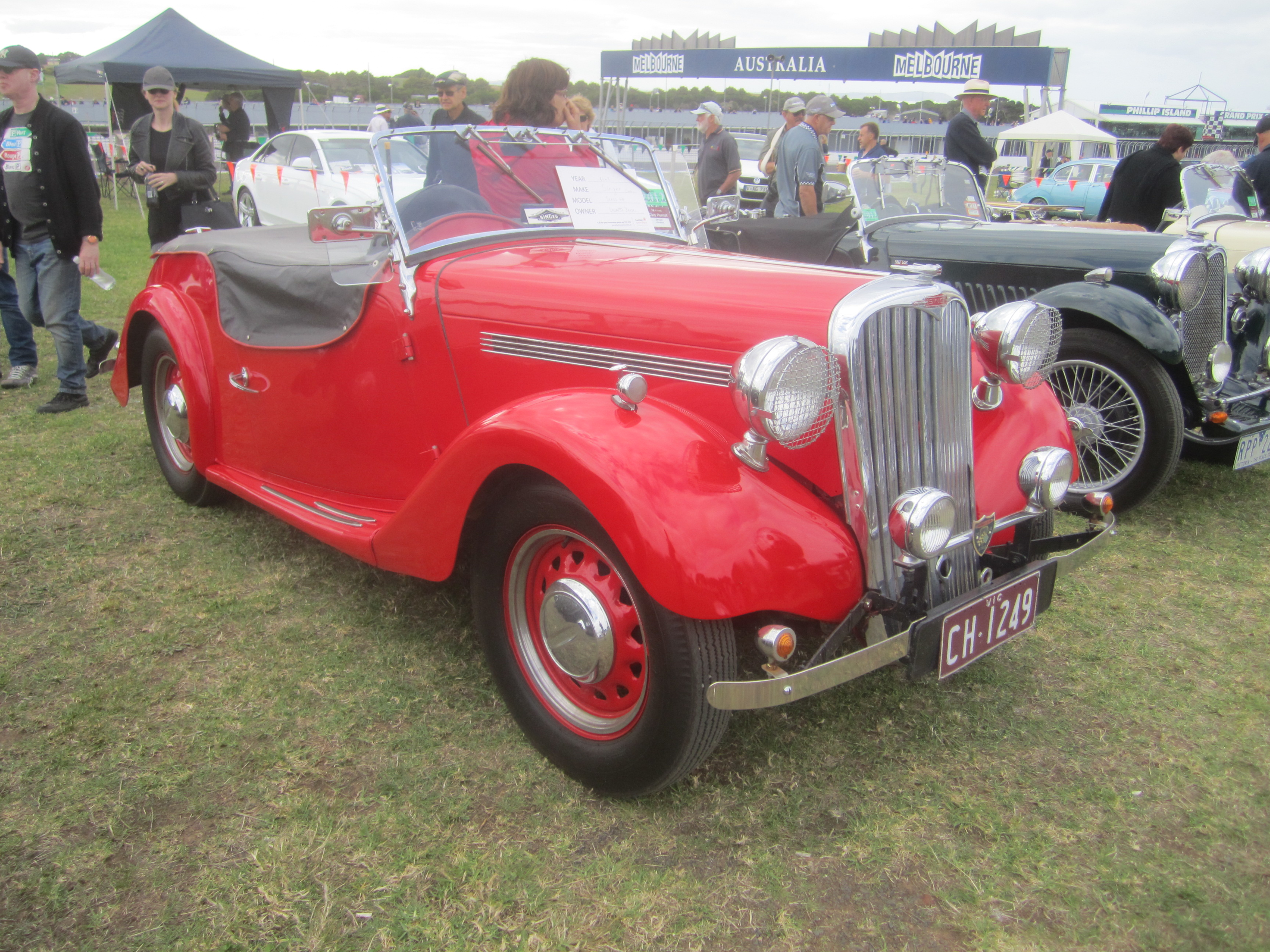 It wasn't until 1955 Singer was taken over by the Rootes Group. The original Singer 9 Roadster was built from 1939-49 Production of the Roadster was suspended after 1940 for the duration of World War II, and the Roadster was re-introduced essentially as is in 1946.In 1950, the improved 4A Roadster was introduced, it got a 4 speed and stronger bumpers which curled around at the ends. Engine; 1074 cc 4cyl